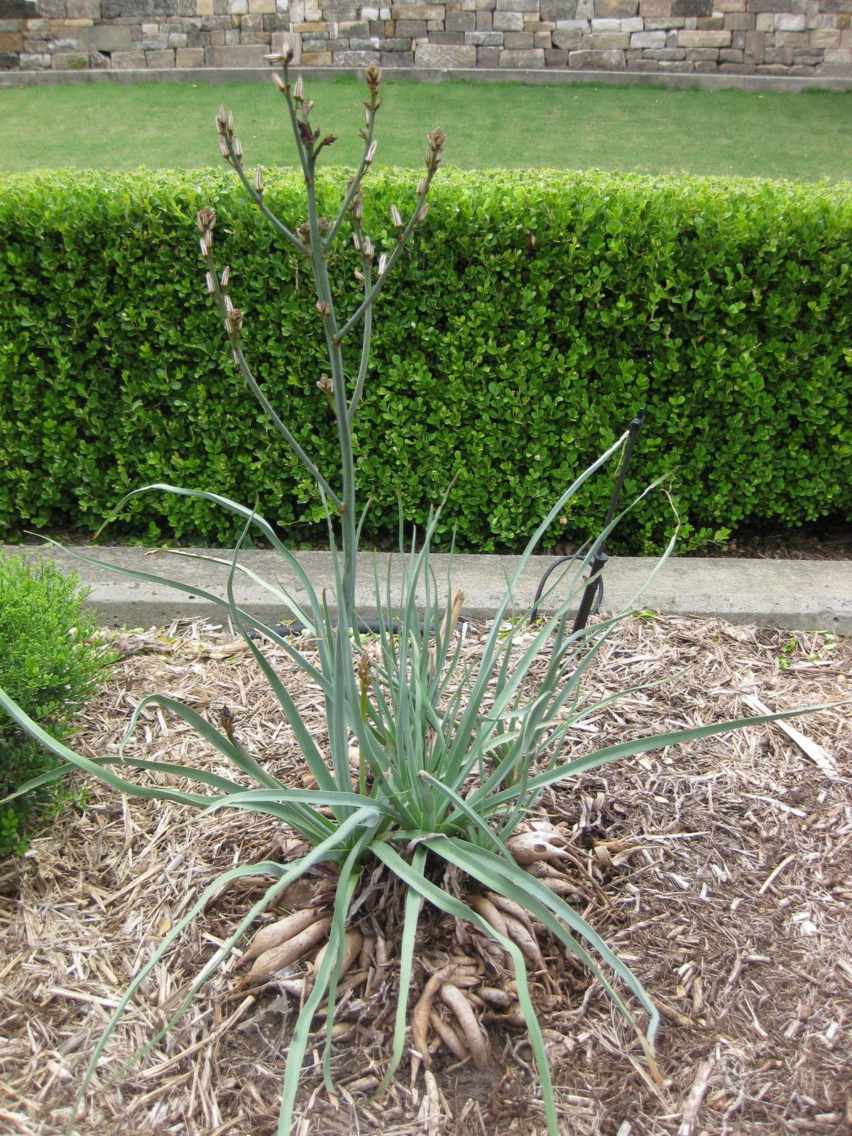 Photographed at the Royal Botanic Gardens Sydney (Australia) in January